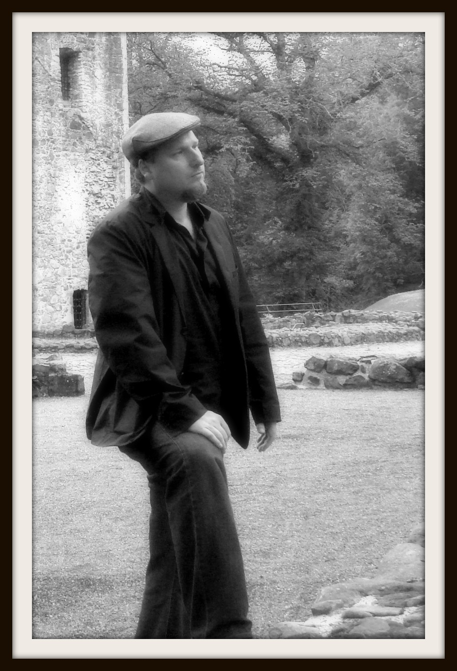 Author photograph of Ernest Hilbert taken at Huntley Castle in Scotland, UK, courtesy of the author. Photograph by Daniel Mitchell.